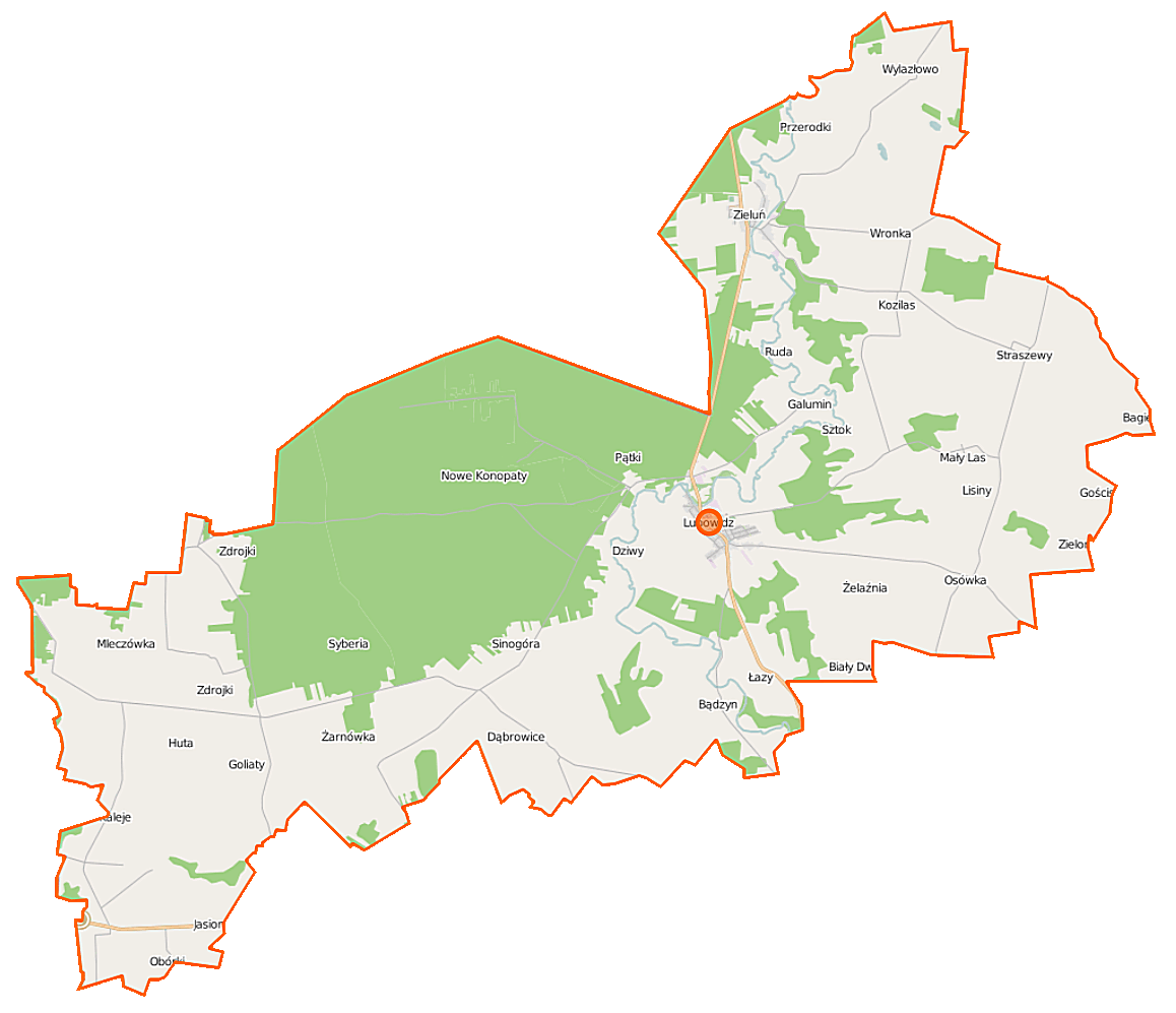 Map of Gmina Lubowidz, Poland This map of Lubowidz (gmina) was created from OpenStreetMap project data, collected by the community. This map may be incomplete, and may contain errors. Don't rely solely on it for navigation. Border coordinates53.215319.6291←↕→19.980453.0336